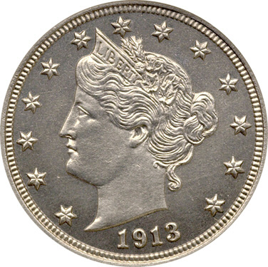 1913 Five Cents, Liberty Head, Obverse